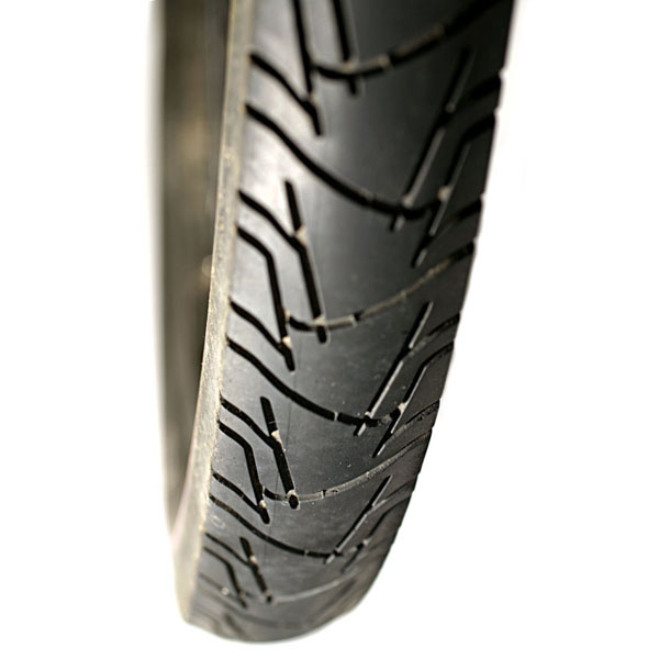 A Cheng Shin "C1218 Street Tire" for bicycles